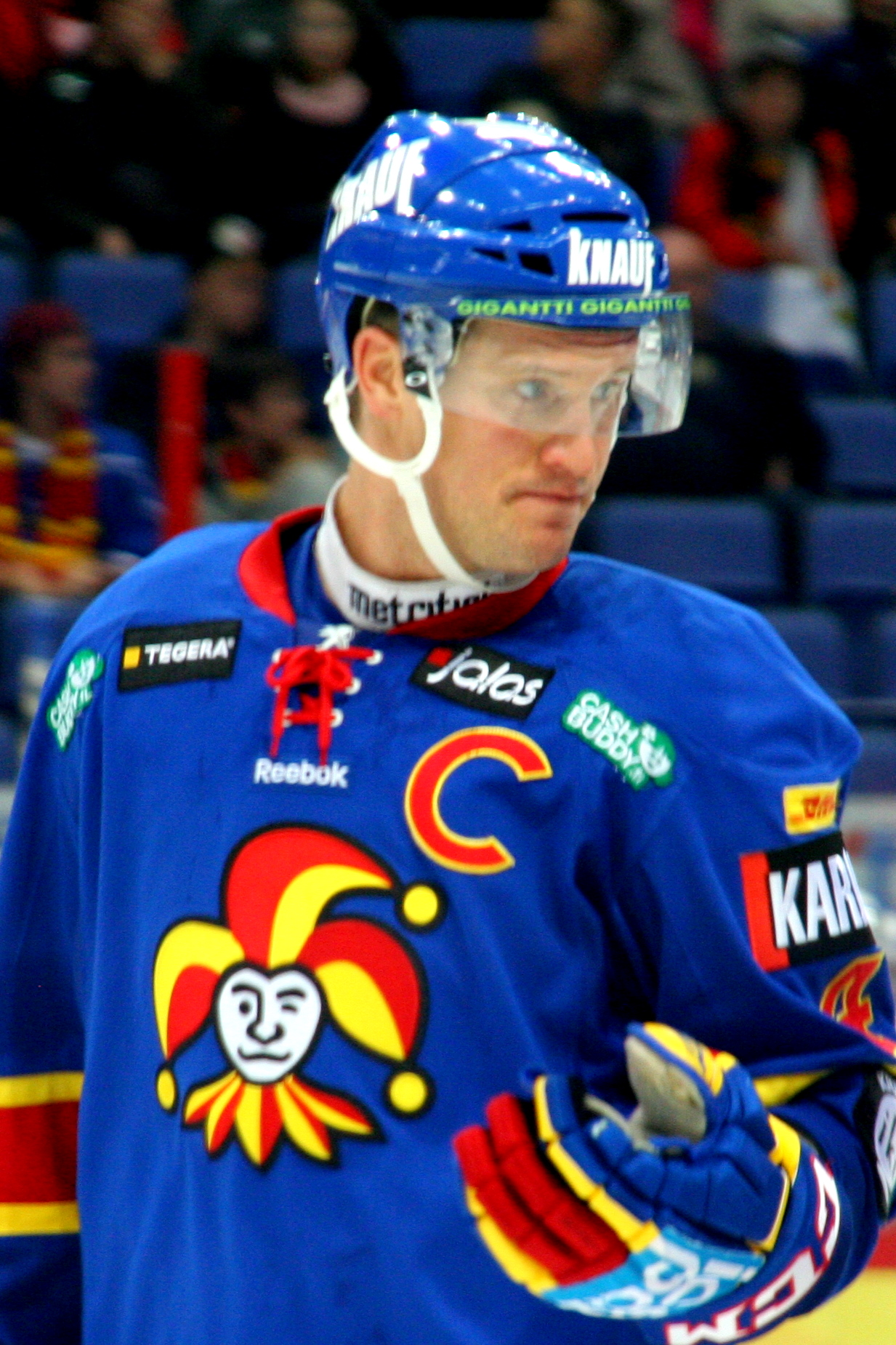 Ice Hockey Team Helsingin Jokerit's Defender #4 C Ossi Väänänen